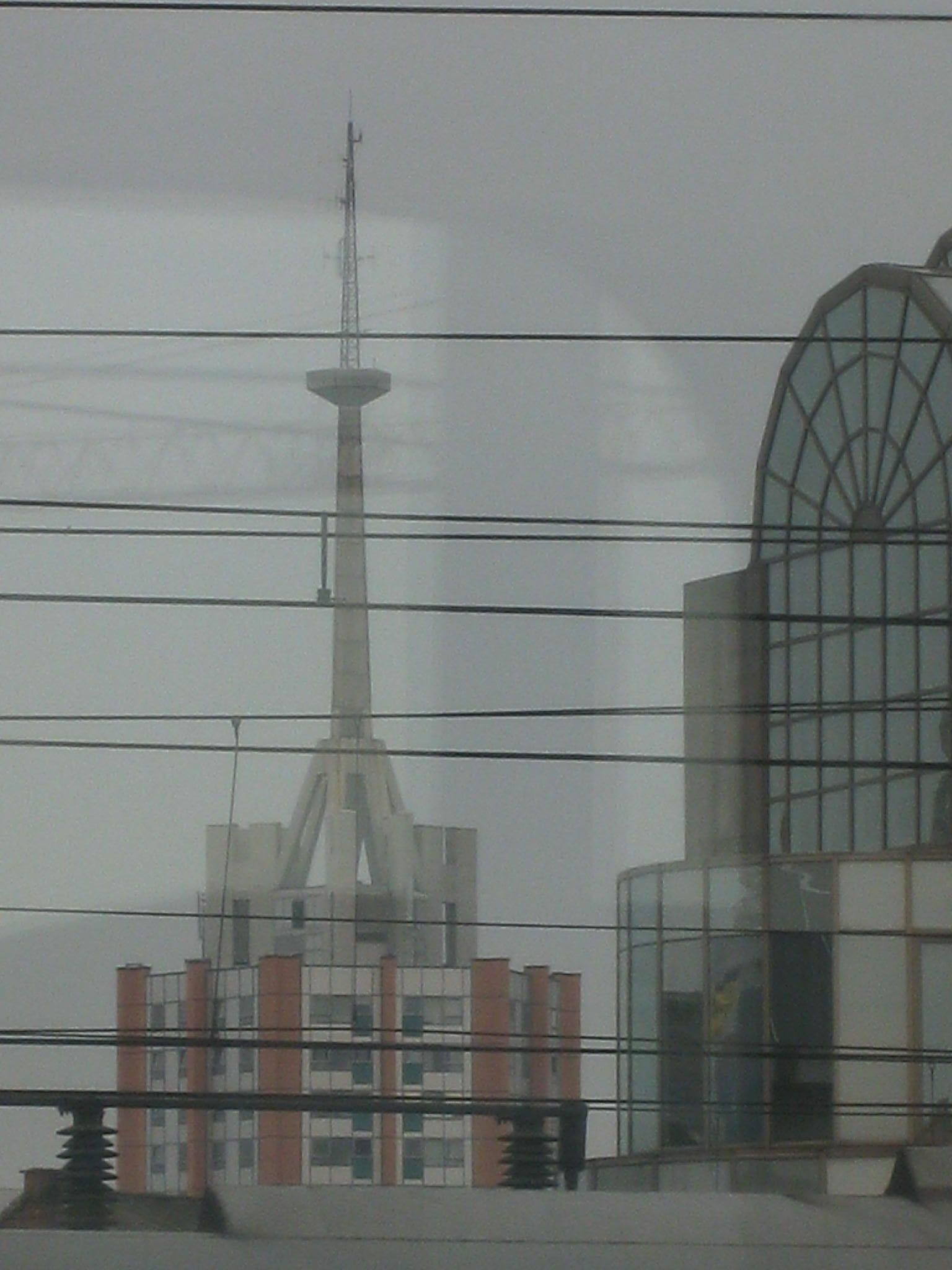 Tower of Sint-Maartensdal, (1957-67) Leuven, arch. Renaat Braem